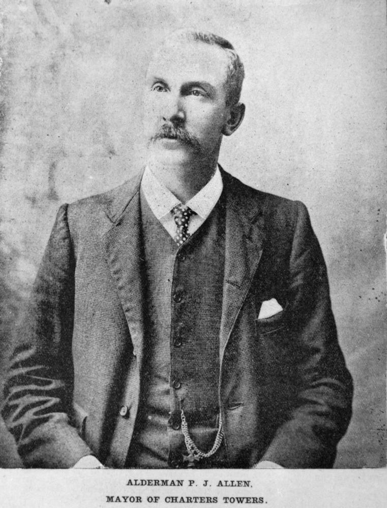 Alderman P. J. Allen was the Mayor of Charters Towers. Mr. Allen, who was a Londoner arrived on the field some eighteen years ago to join staff of his, Mr Thos. Buckland. When the latter, who had large interests in property, mines and cattle, retired from active business some ten years ago. Mr. Allen assumed the management, and had retained the position since. He also acted as mining secretary. Mr Allen who had already been in Council for five years, was again returned in 1902. He was active, energetic and capable, and should have been an excellent Mayor. (Description supplied with photograph).